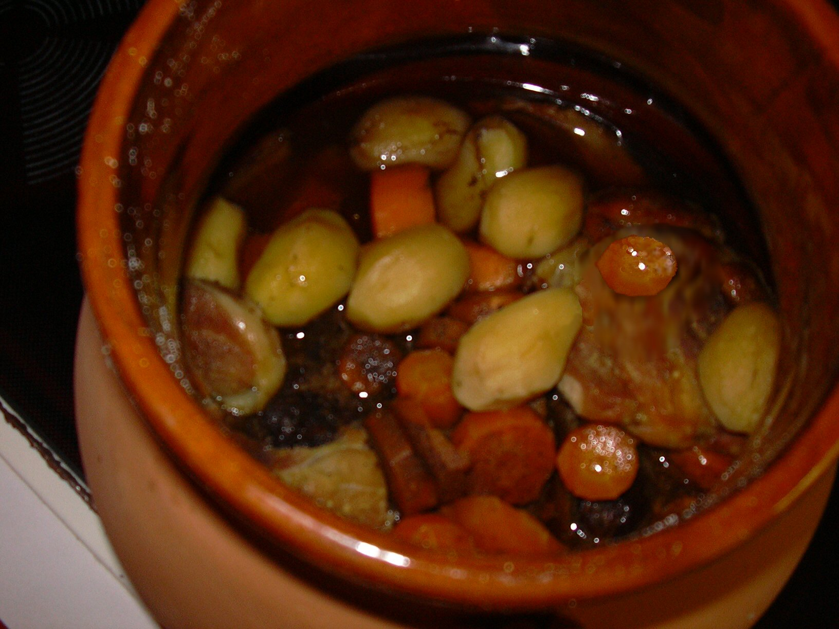 French beef stew